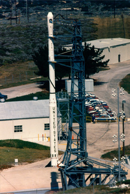 Scout-G1 launch vehicle with SAMPEX satellite at SLC-5 at Vandenberg Air Force Base